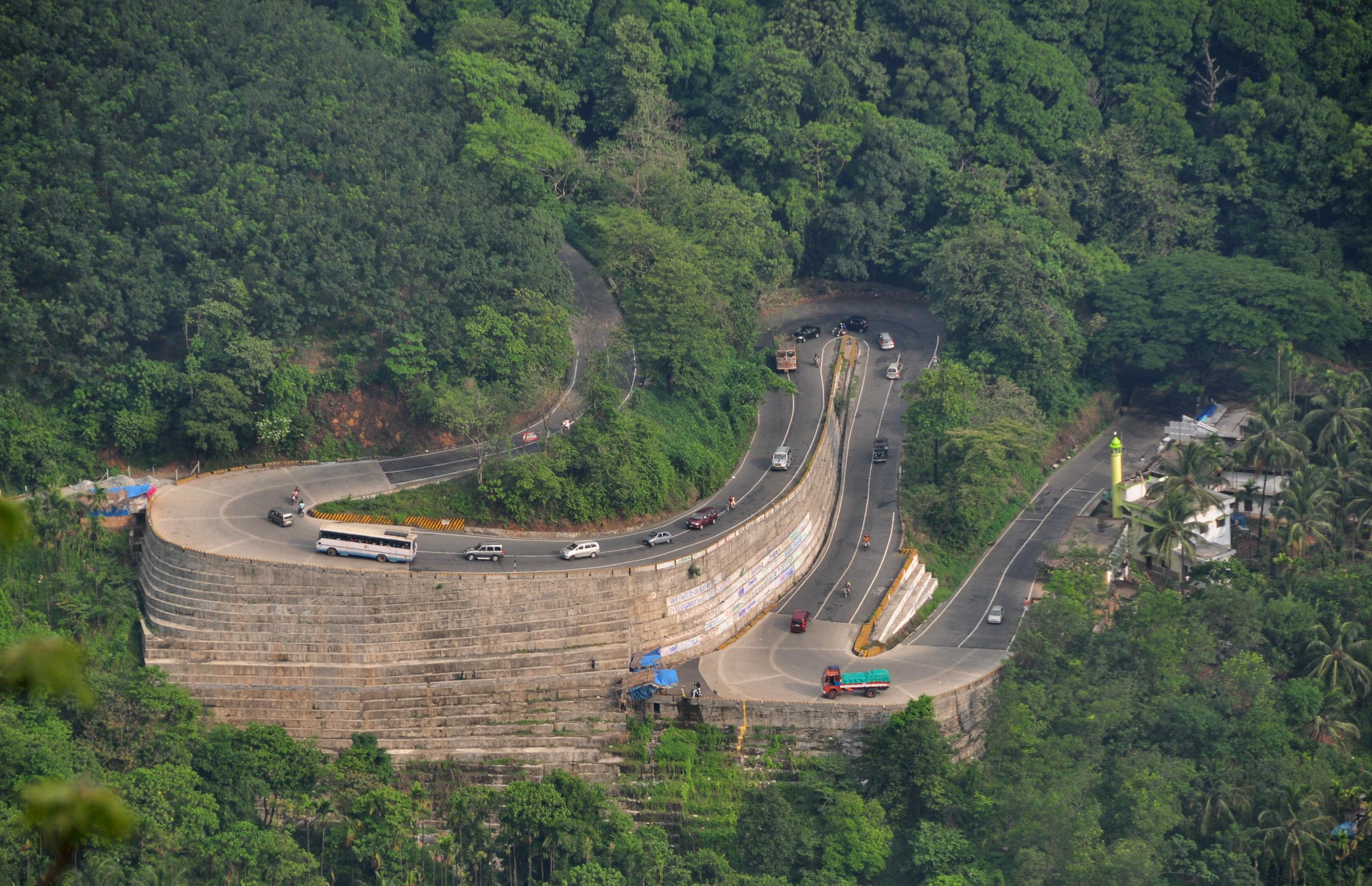 Mountain Pass of Wayanad district in Kerala, India